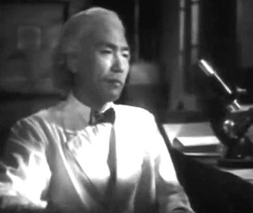 Movie still for 1949 Japanese movie Invisible Man Emerges (透明人間現る Tōmei-ningen Arawaru).